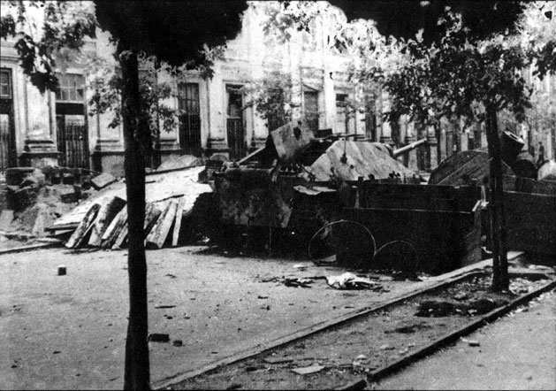 Warsaw Uprising - Polish barricade on the Napoleon square build around German Jagdpanzer 38(t) "Hetzer" tank captured by the Home Army.